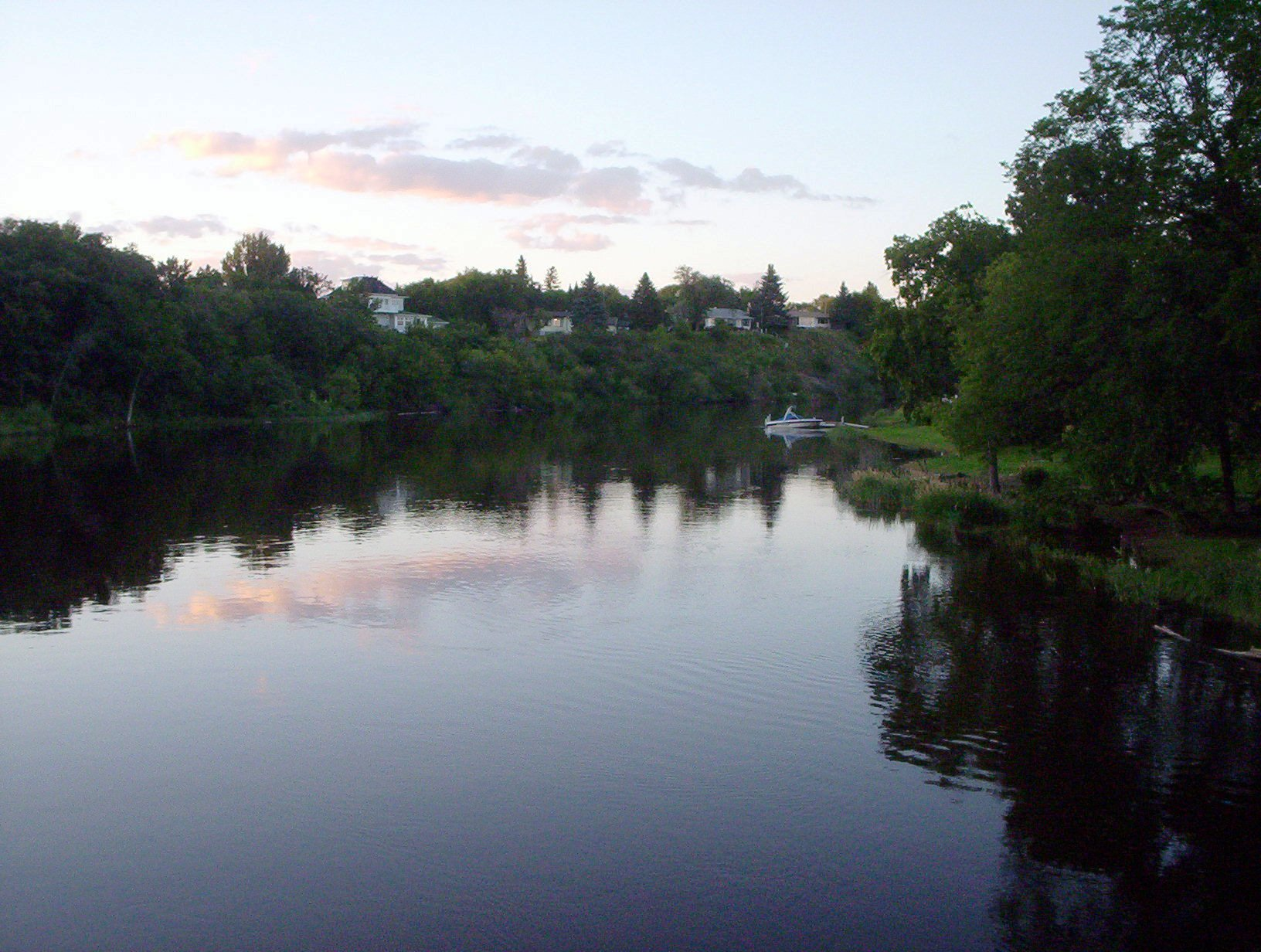 The Souris River, in the town of Souris, Manitoba.